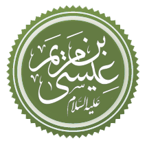 Prophet Jesus's name in arabic font